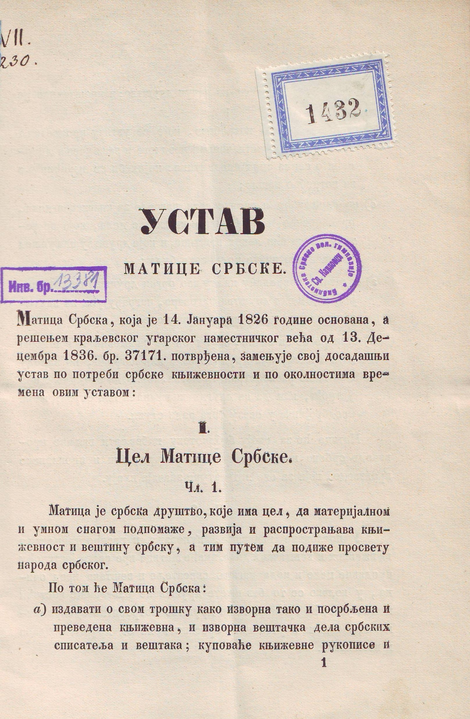 First page of the Matica srpska Constitution (1864). Srpski (latinica): Prva strana Ustava Matice srpske (1864).